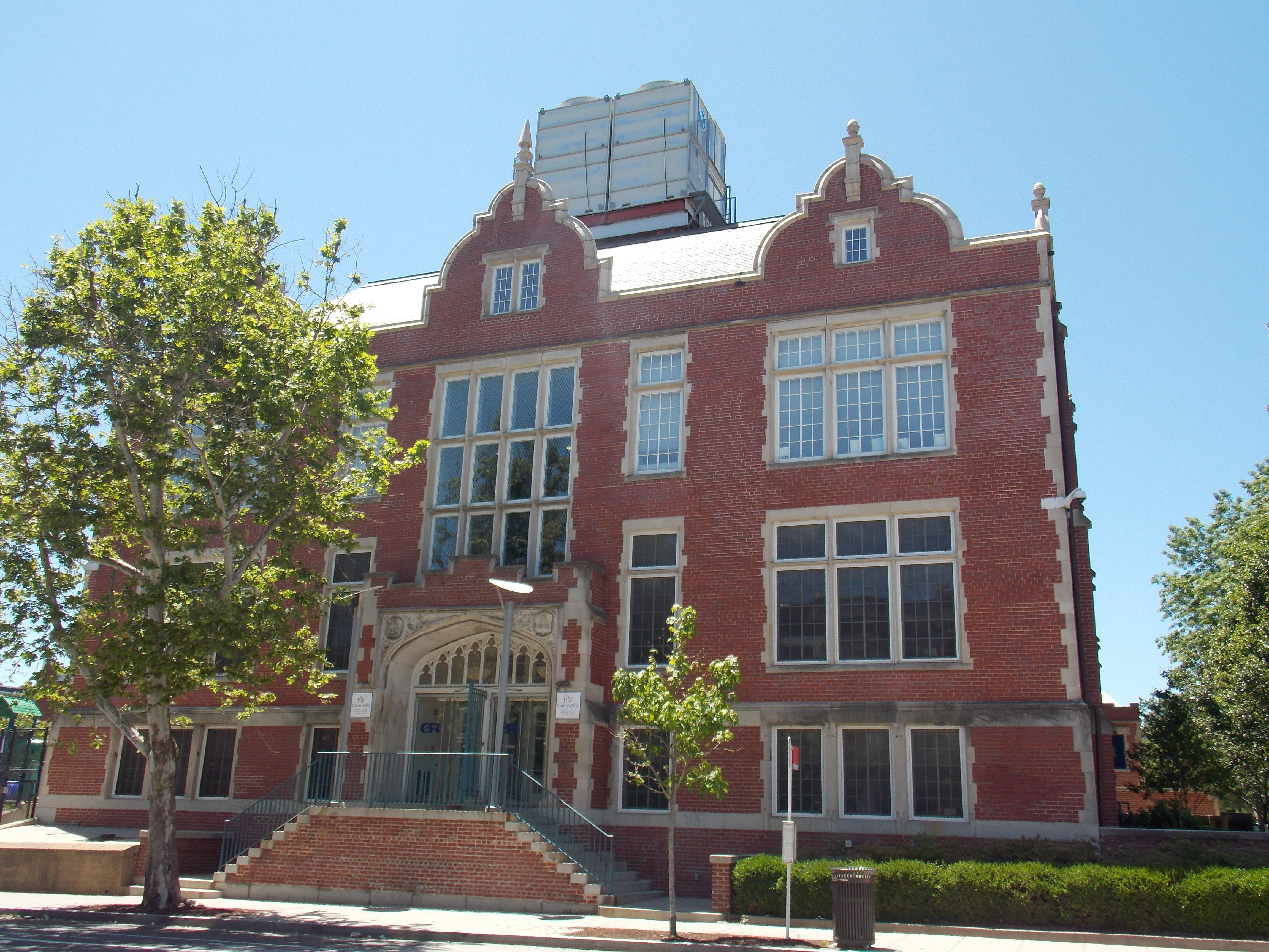 The former James Ormand Wilson Normal School is now the Carlos Rosario International Public Charter School in Washington, D.C. The building is listed on the National Register of Historic Places.